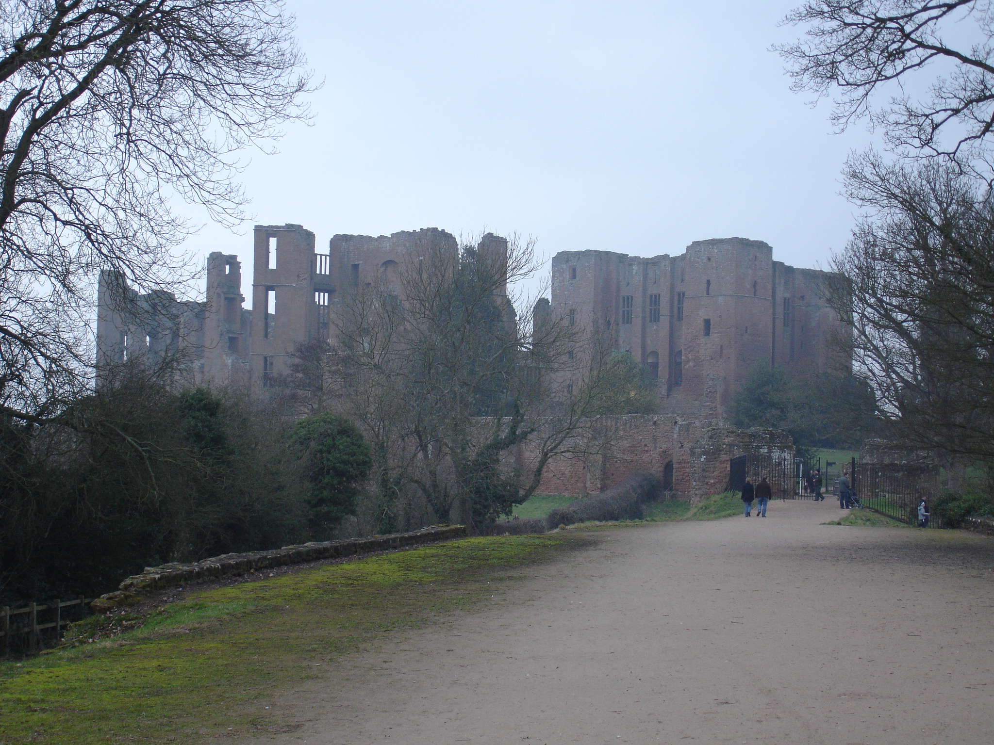 Kenilworth Castle, Kenilworth, Warwickshire, UK